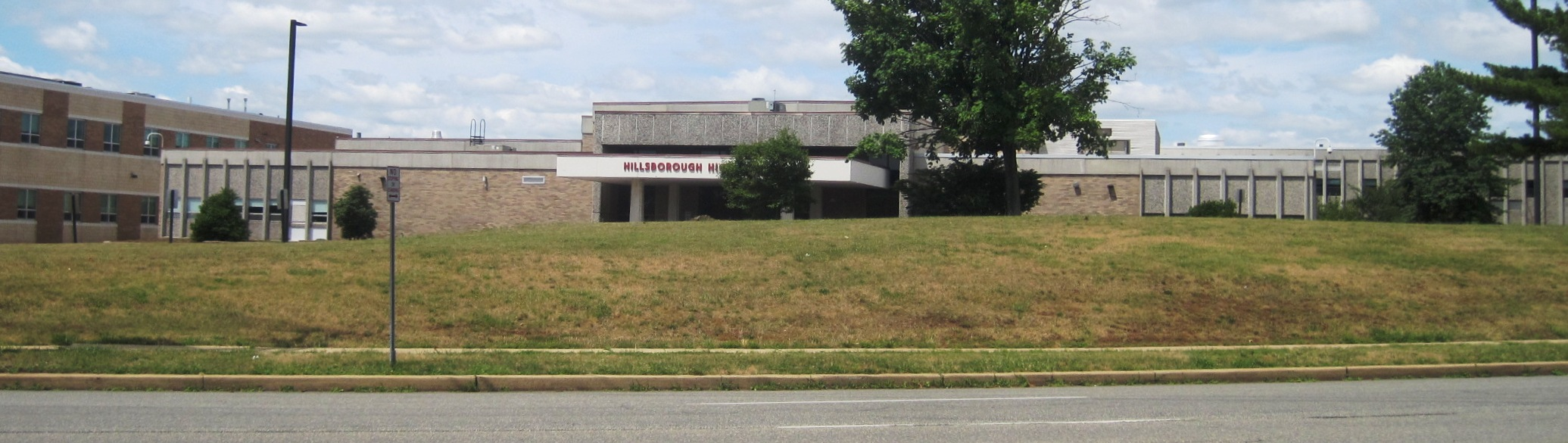 Front of the Hillsborough High School in Hillsborough Township, New Jersey. Photo taken at the intersection of Raider Boulevard and Homestead Road.